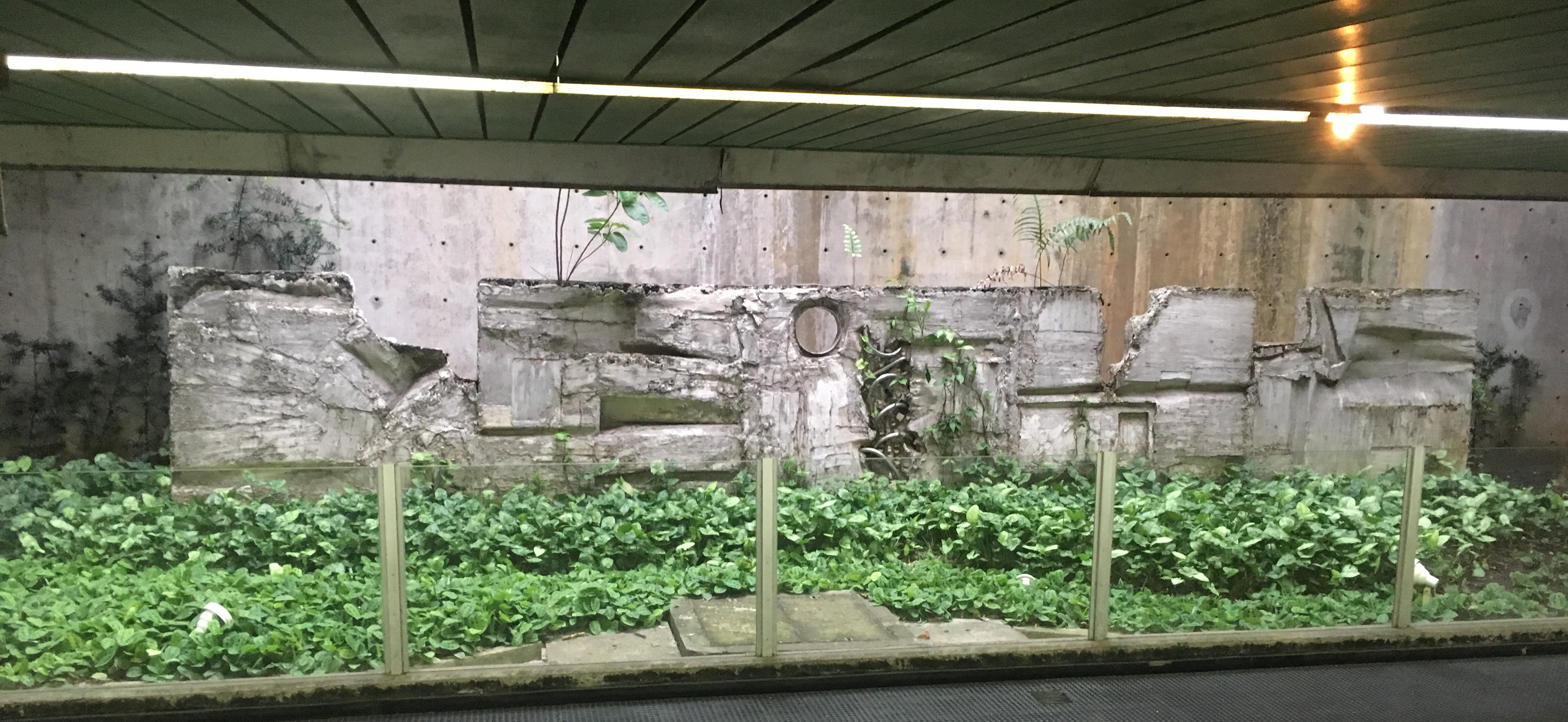 O monumento fica na estação de metrô Santa Cecília, em São Paulo (SP), Brasil.